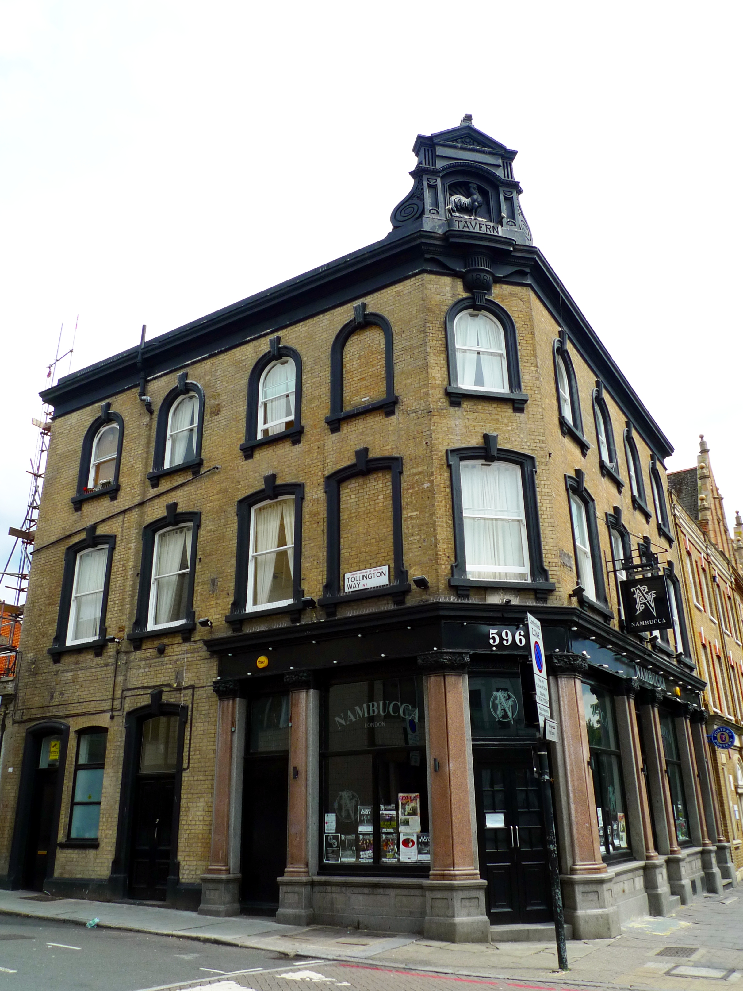 Formerly a pub, more of a bar that focuses on live music. (Photo of it when closed by a fire.) Address: 596 Holloway Road. Former Name(s): Swagman's; BJ Sports Bar; The Cock Tavern. Links: London Pubology